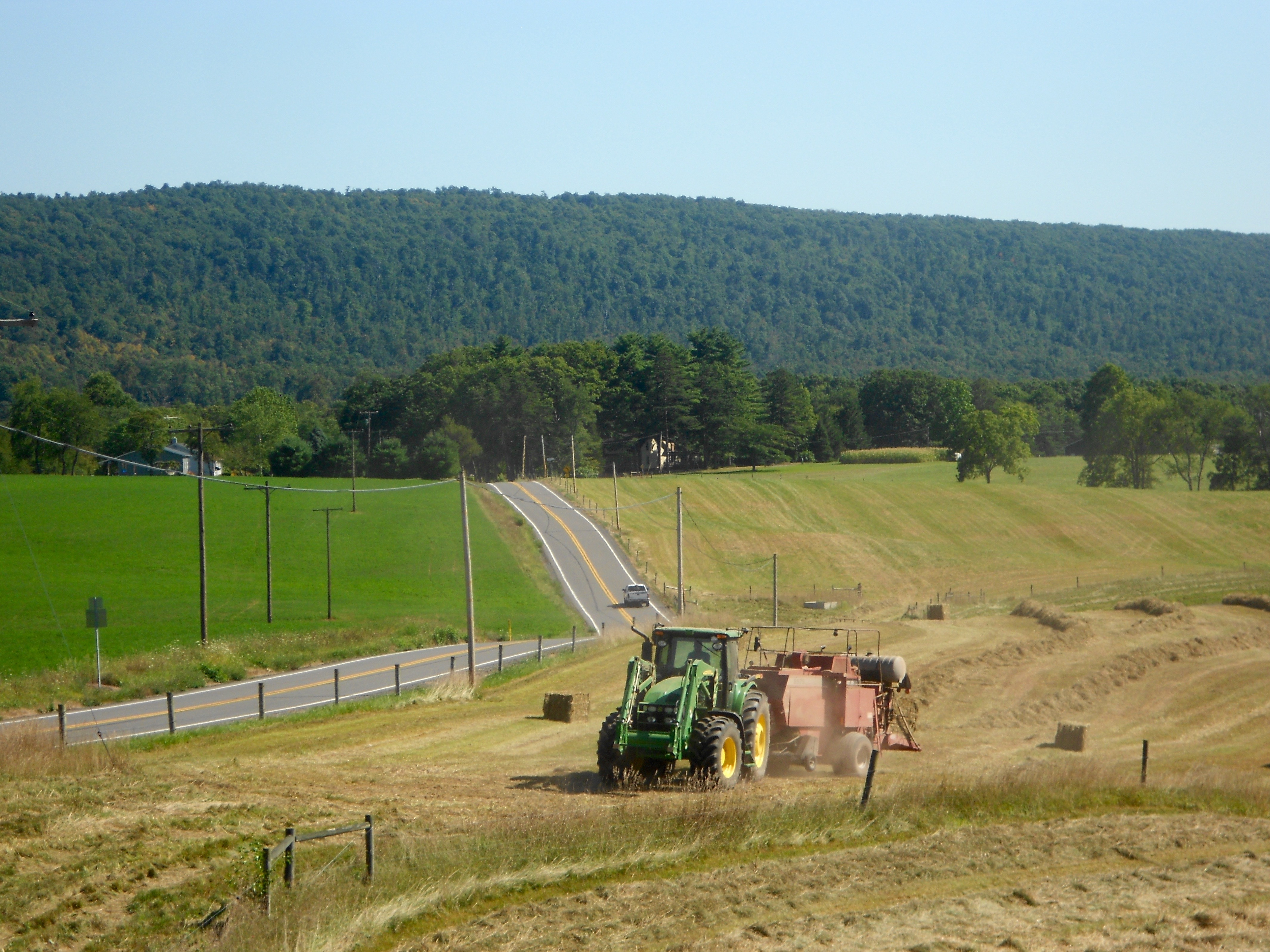 "Baling" hay in Buck Valley, Union Township, Fulton County, Pennsylvania.